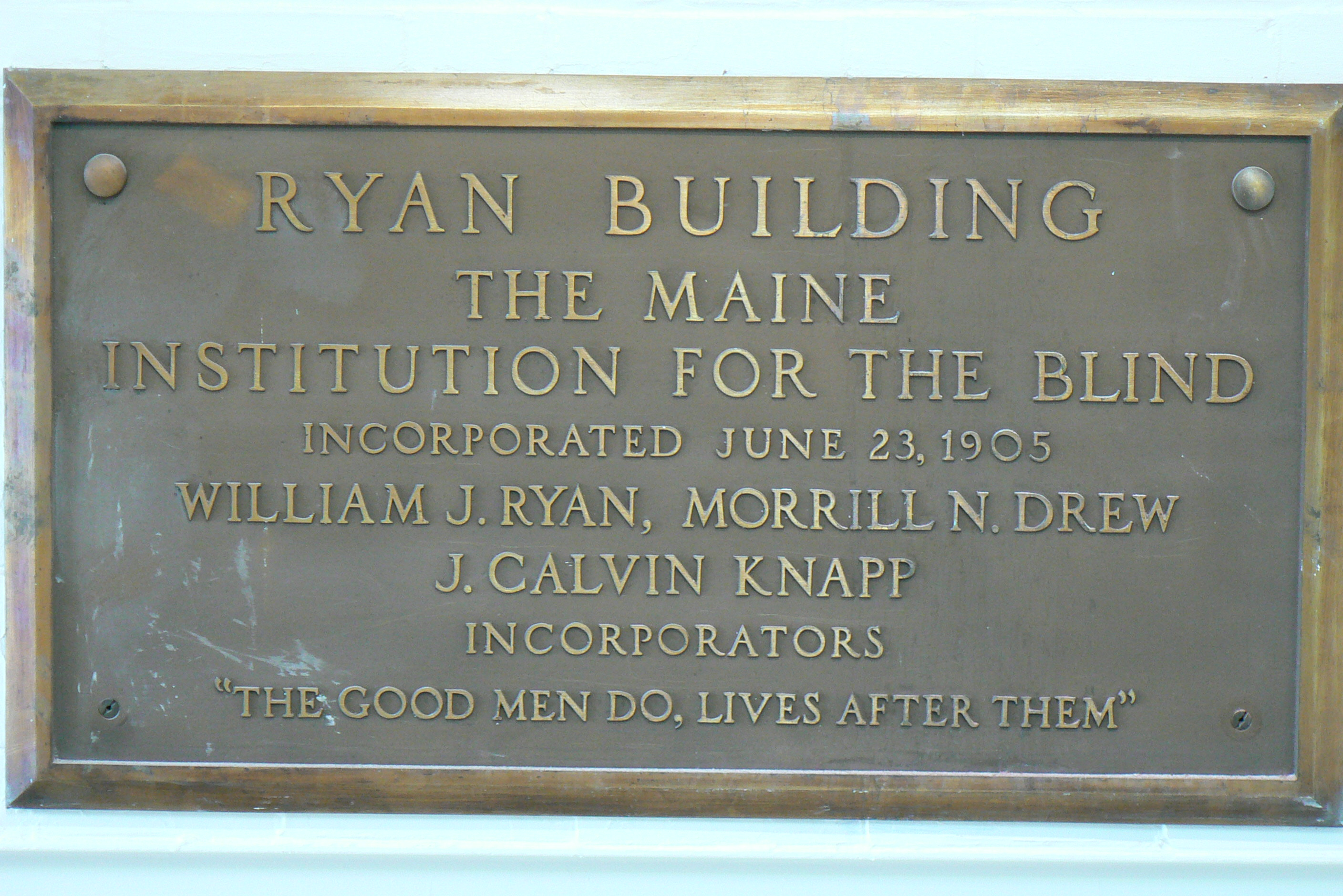 Ryan Building * The Maine Institution for the Blind * incorporated June 23, 1905 * William J. Ryan, Morrill N. Drew, J. Calvin Knapp Incorporators * "The good men do, lives after them"